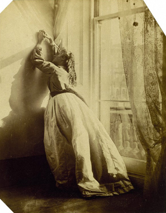 Photographed at 5 Princes Gardens, South Kensington, London.